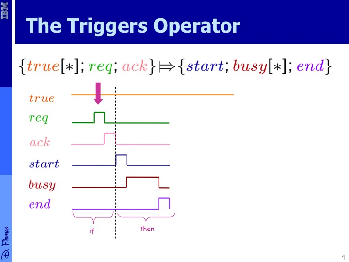 simple path satisfying r